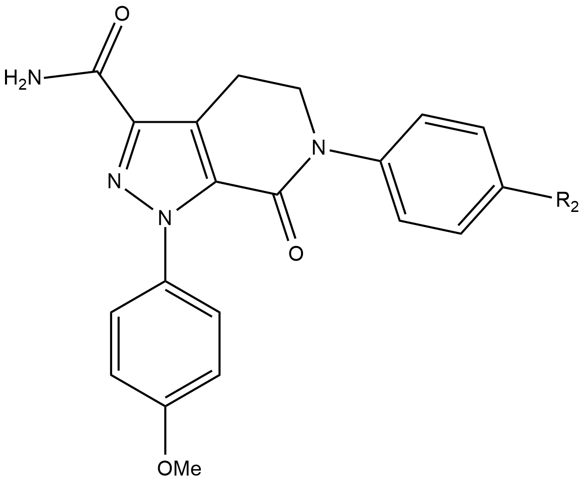 The proccess of developing the SAR of Apixaban. 13f is the intermediate